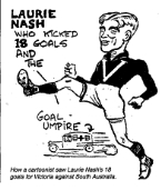 A 1934 cartoon of Australian footballer and cricketer Laurie Nash